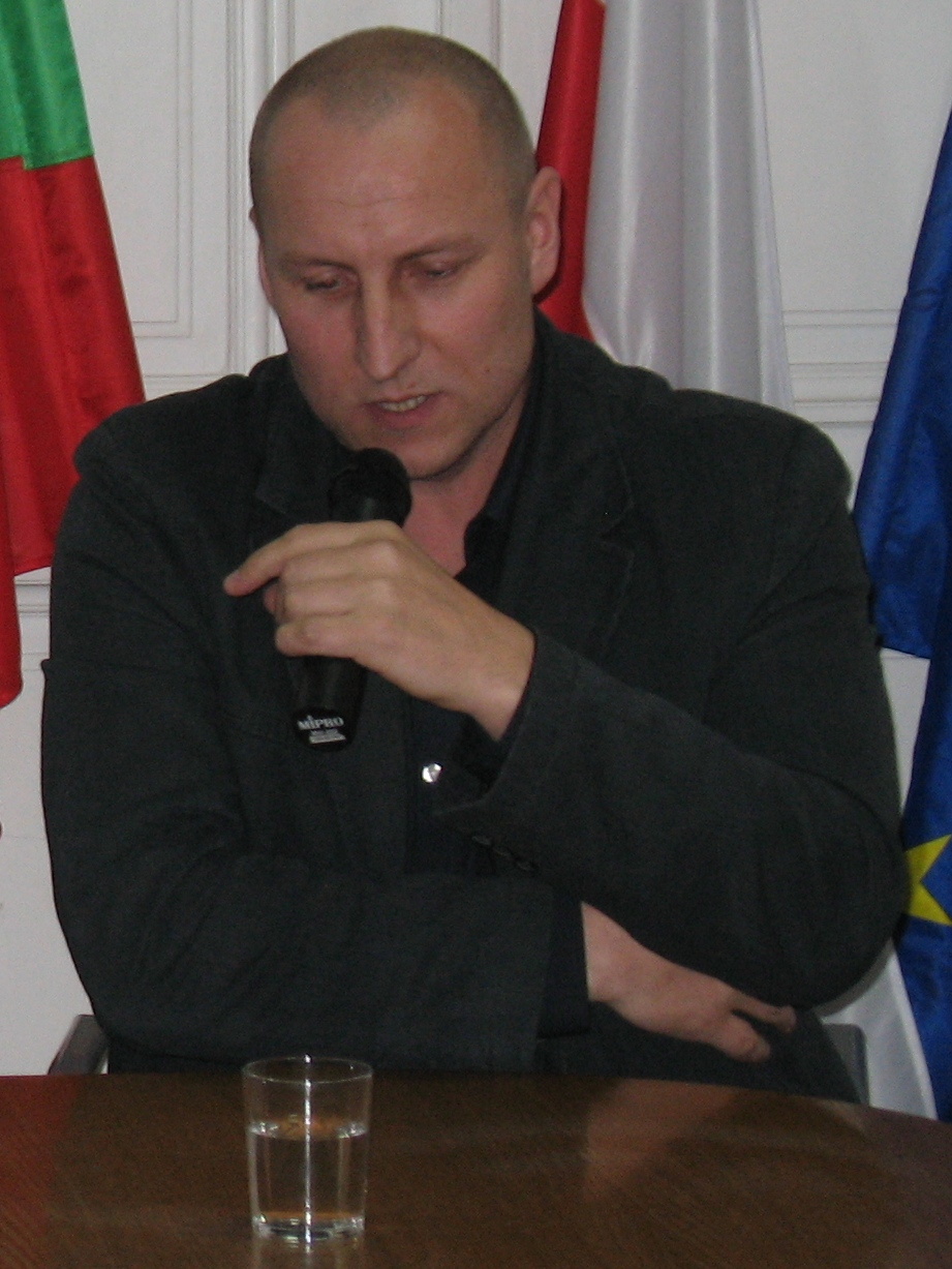 Sigitas Parulskis, lithuanian writer, poet, playwright